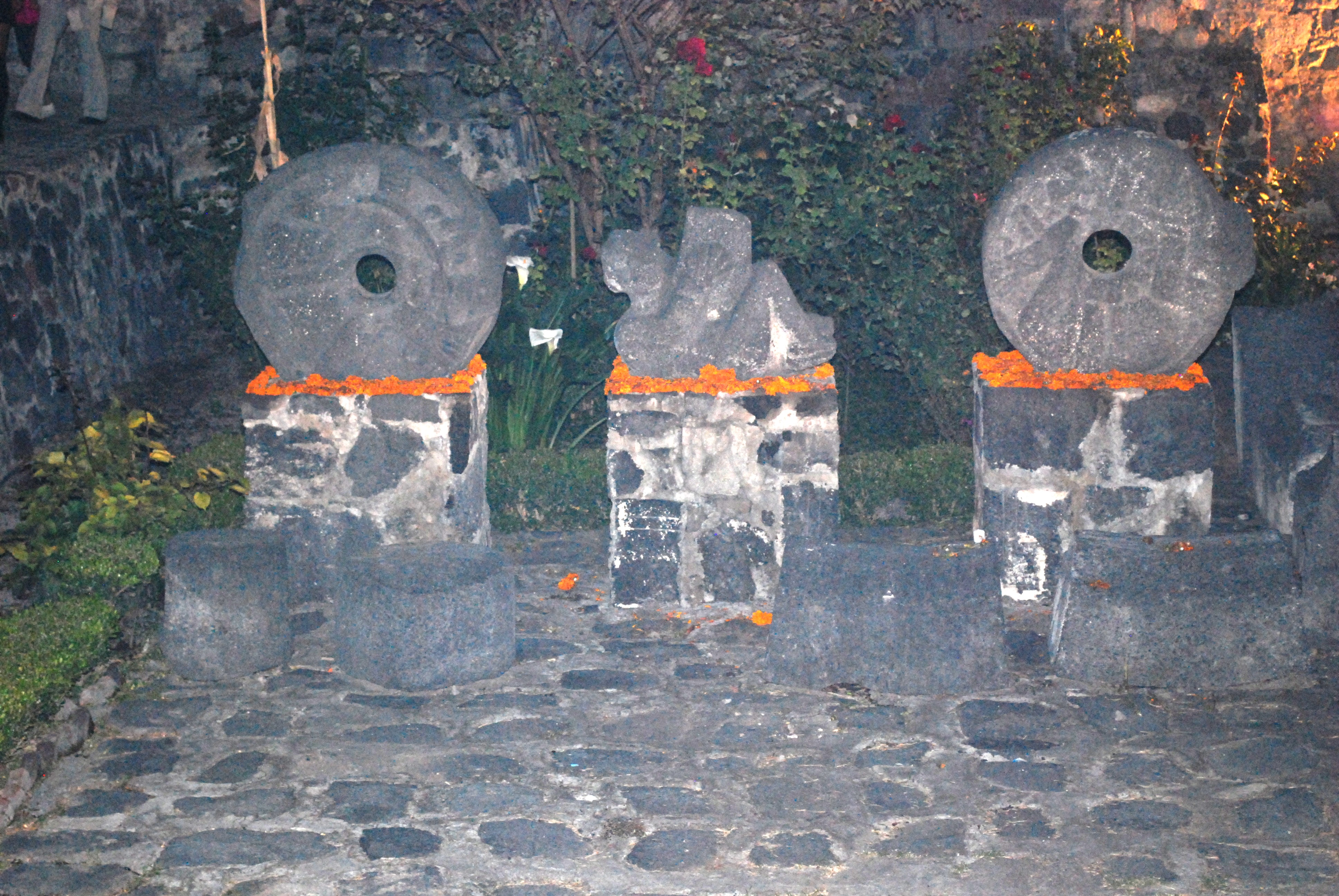 Chacmool and ballgame rings on display in the courtyard of the old monastery of San Andres Apostol in San Andres Mixquic, Mexico City